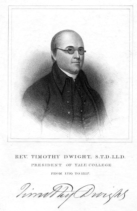 Engraving of Timothy Dwight IV, eighth president of Yale College. Courtesy of the Yale University Manuscripts & Archives Digital Images Database.